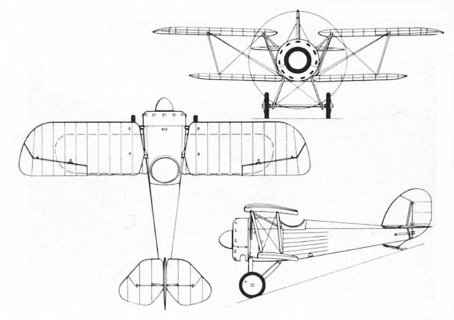 Three view engineering drawing (courtesy unknown)